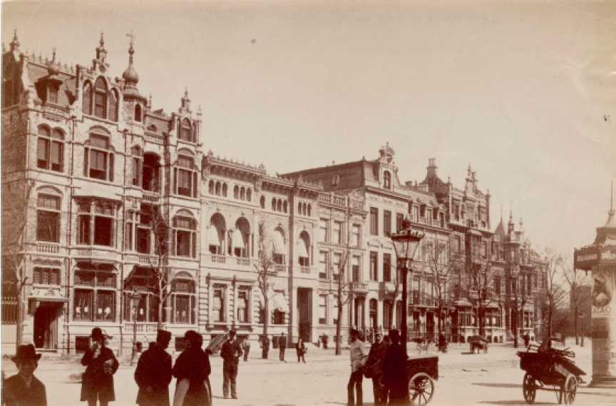 Sarphatistraat gezien vanaf het Frederiksplein richting Amstel. Links het dubbele pand van de bankier Frederik van Nierop, daarnaast het pand van de weduwe Abigael Teixeira de Mattos-Mendes (1840-1905). Andries van Wezel woonde op 9 (het vierde huis van links, achter de lantaarn). Foto 1890. Stadsarchief Amsterdam (Beeldbank 010003001300)